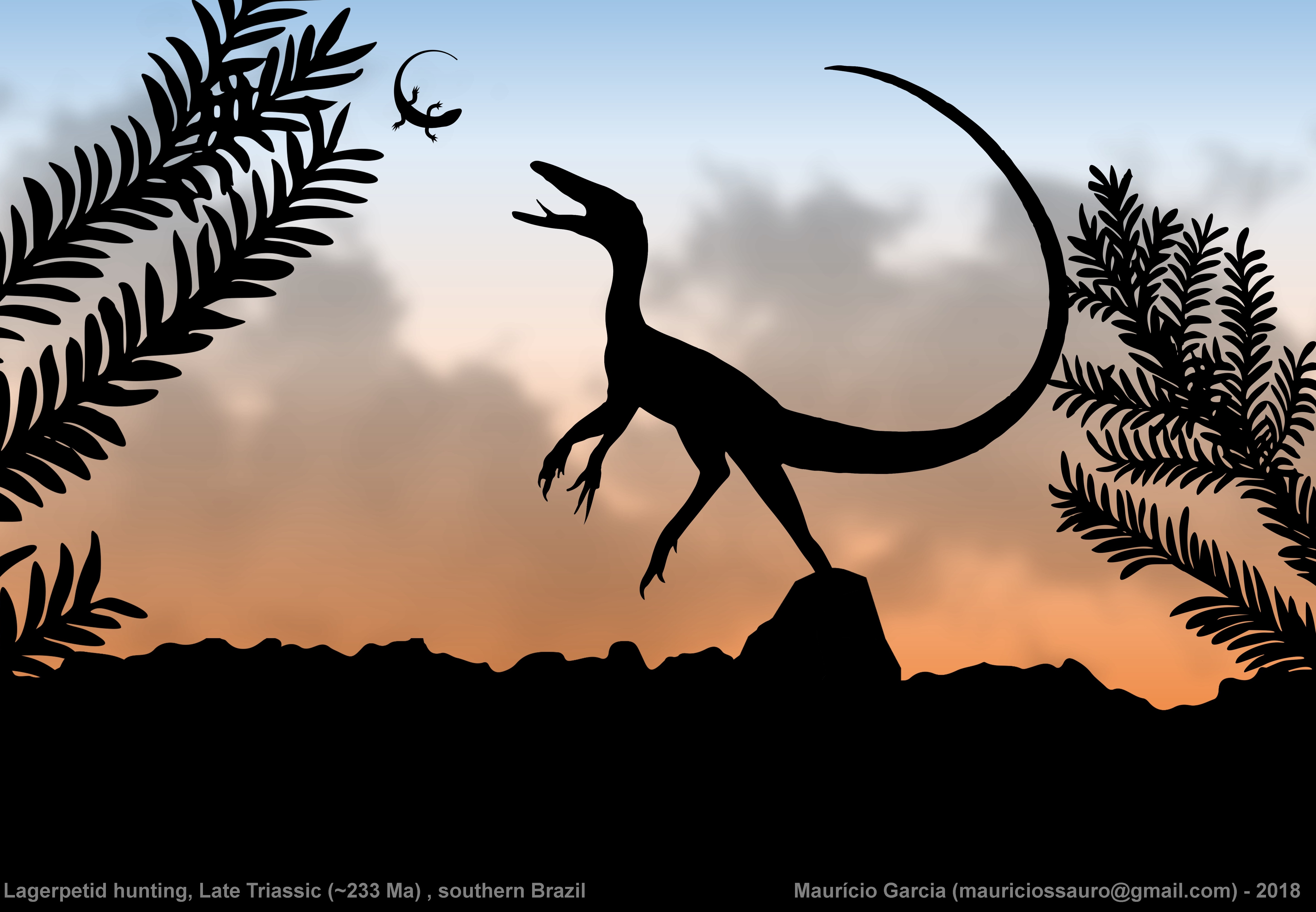 Lagerpetid (Ornithodira, Dinosauromorpha) hunting.